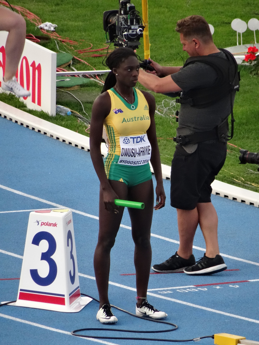 2016 IAAF World U20 Championships in Bydgoszcz, 4x100m relay women final